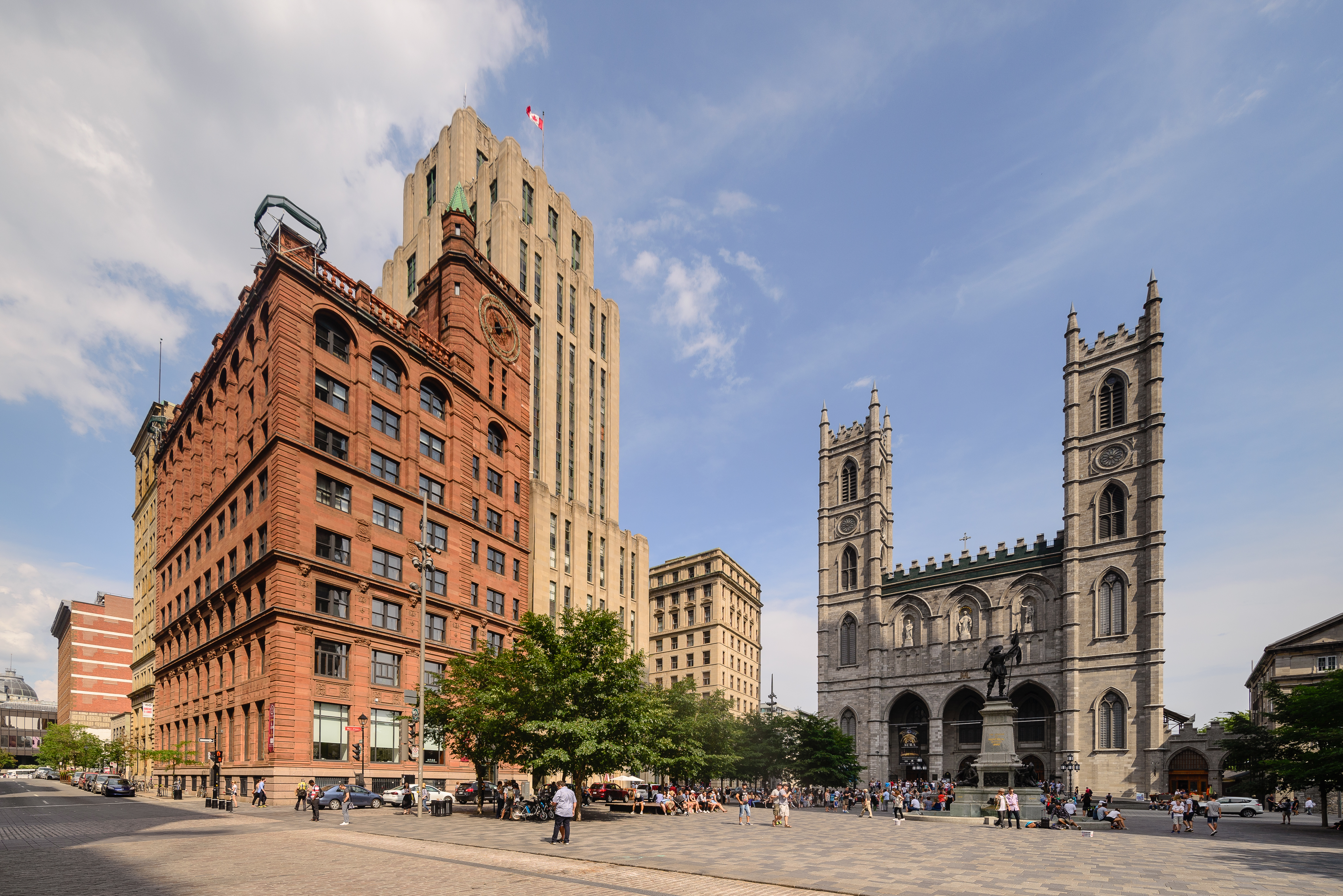 Place d'Armes in Montreal, Canada, From left, New York Life Insurance Building, Aldred Building and Notre-Dame Basilica.